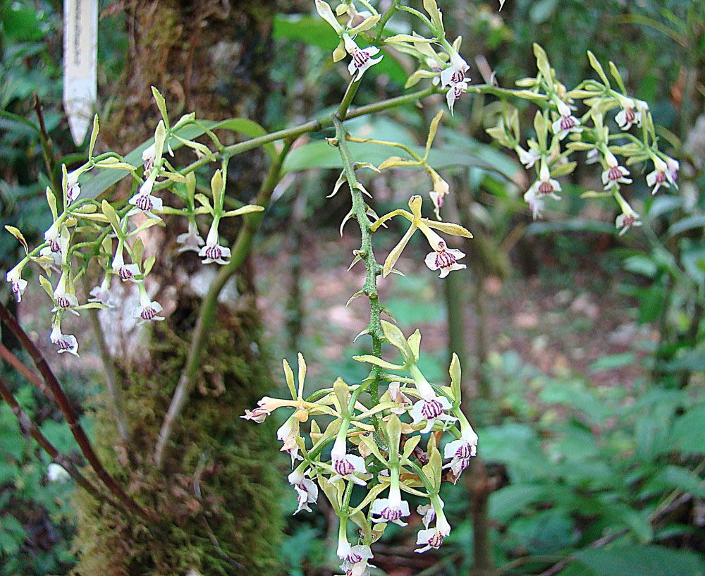 A cloud forest epiphyte ranging from Nicaragua to Panama. Dr. Stephan Kirby Orchid Garden, Bosque de Paz, Costa Rica. In context at